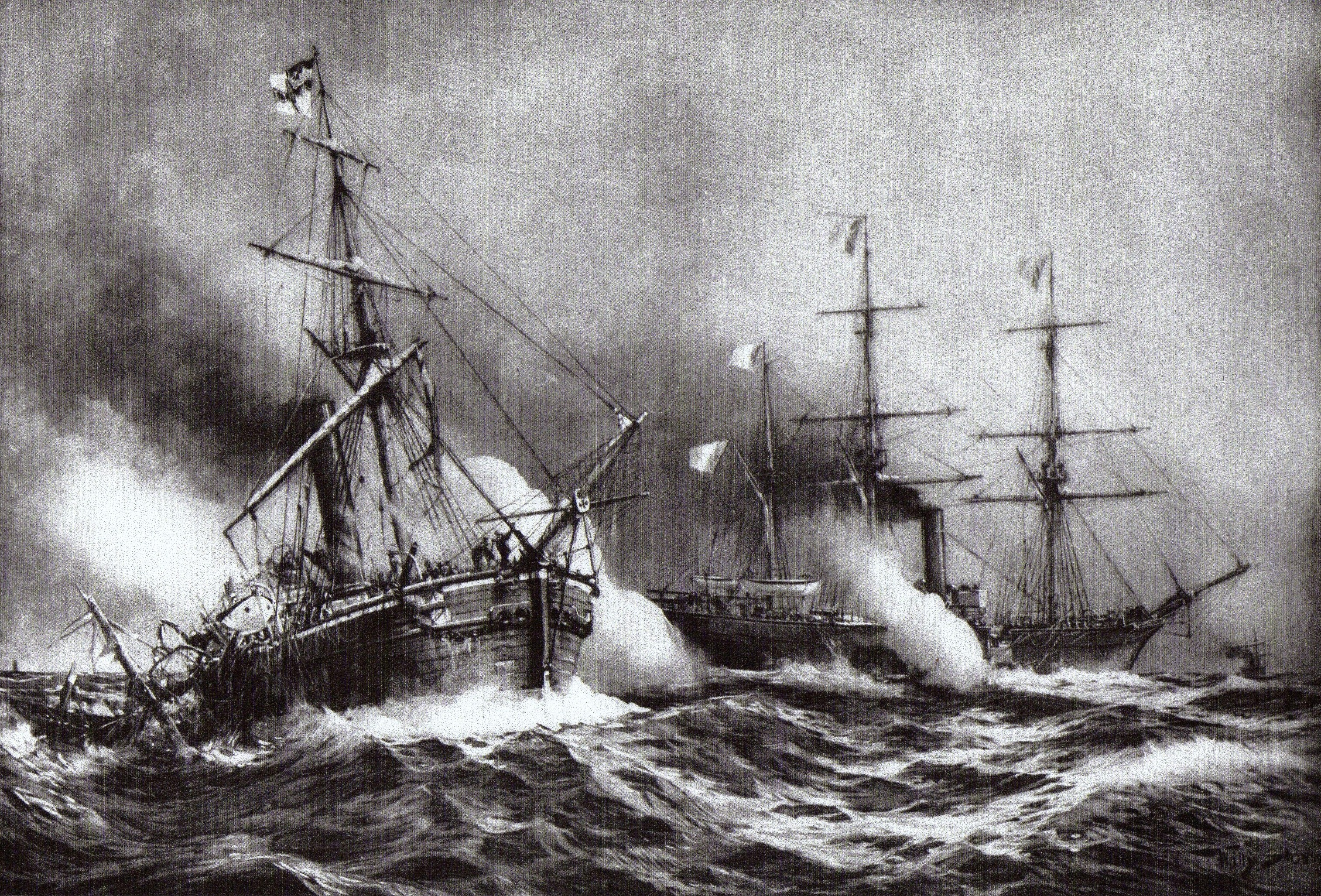 reproduction d'un tableau de Willy Stower